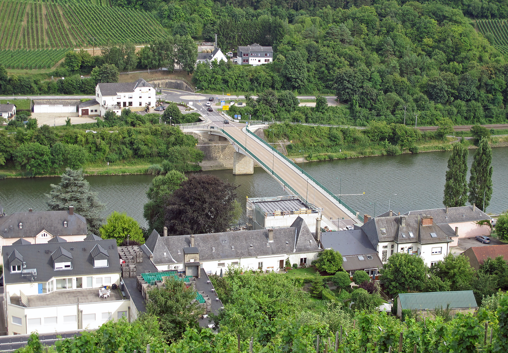 Bridge of Wormeldange-Wincheringen over the Moselle